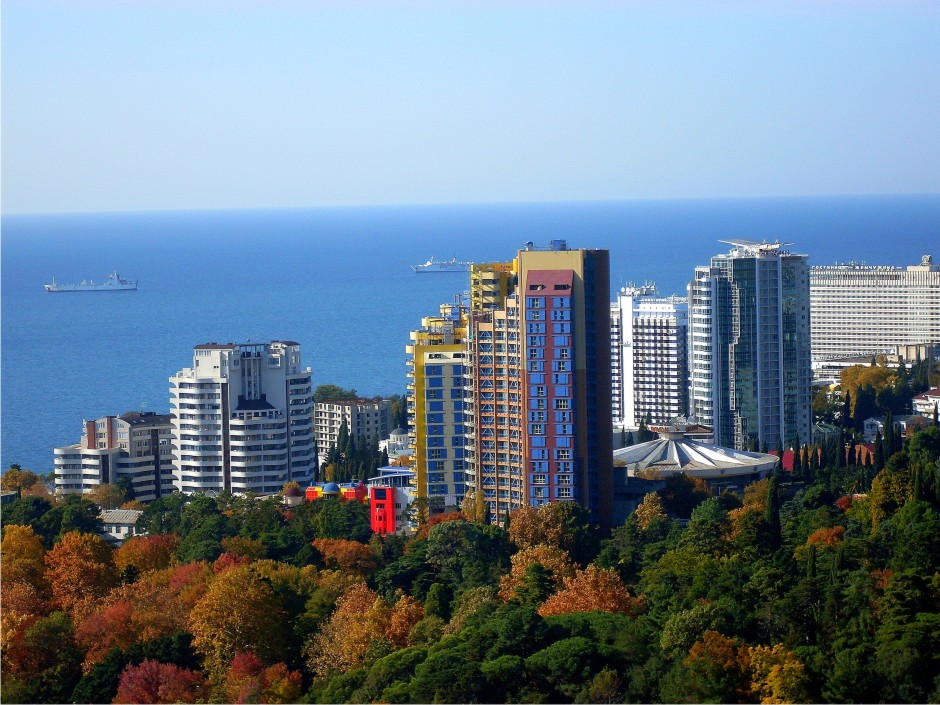 Skyline of Sochi, Russia